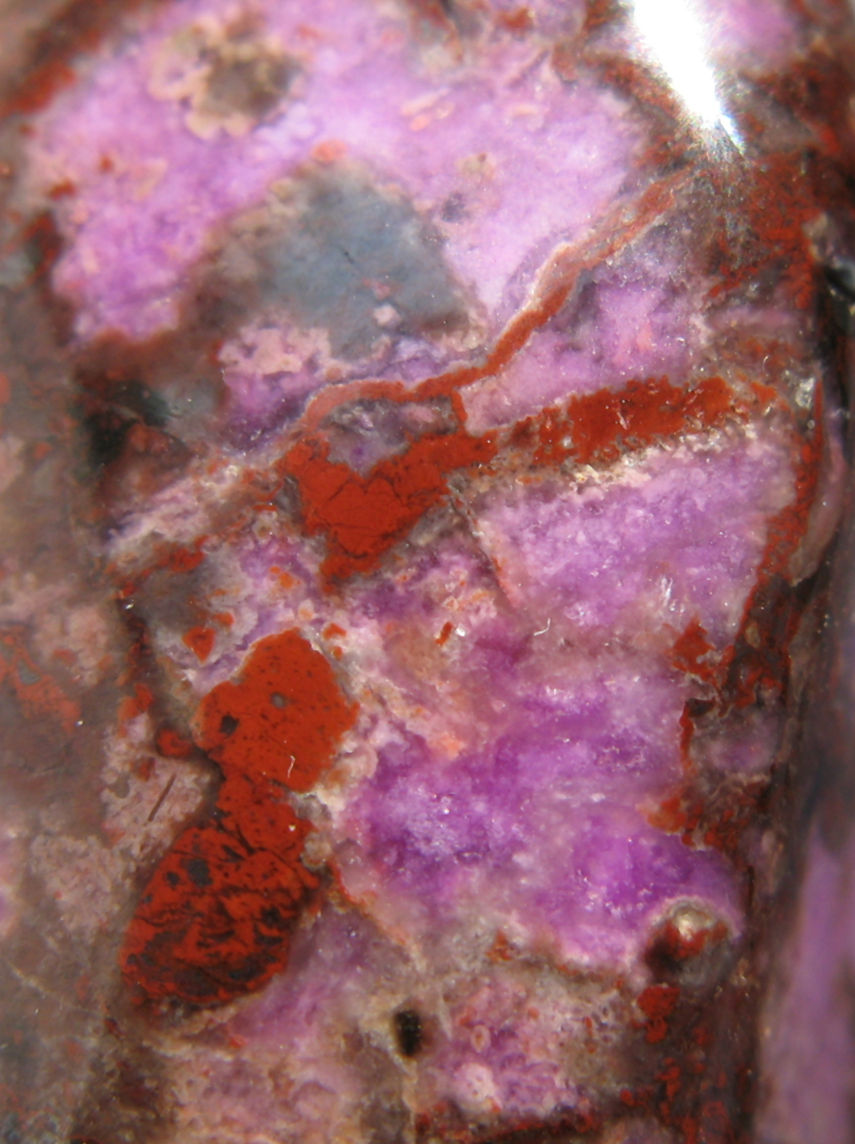 Sugilite - Silicon-mineral from Southafrica